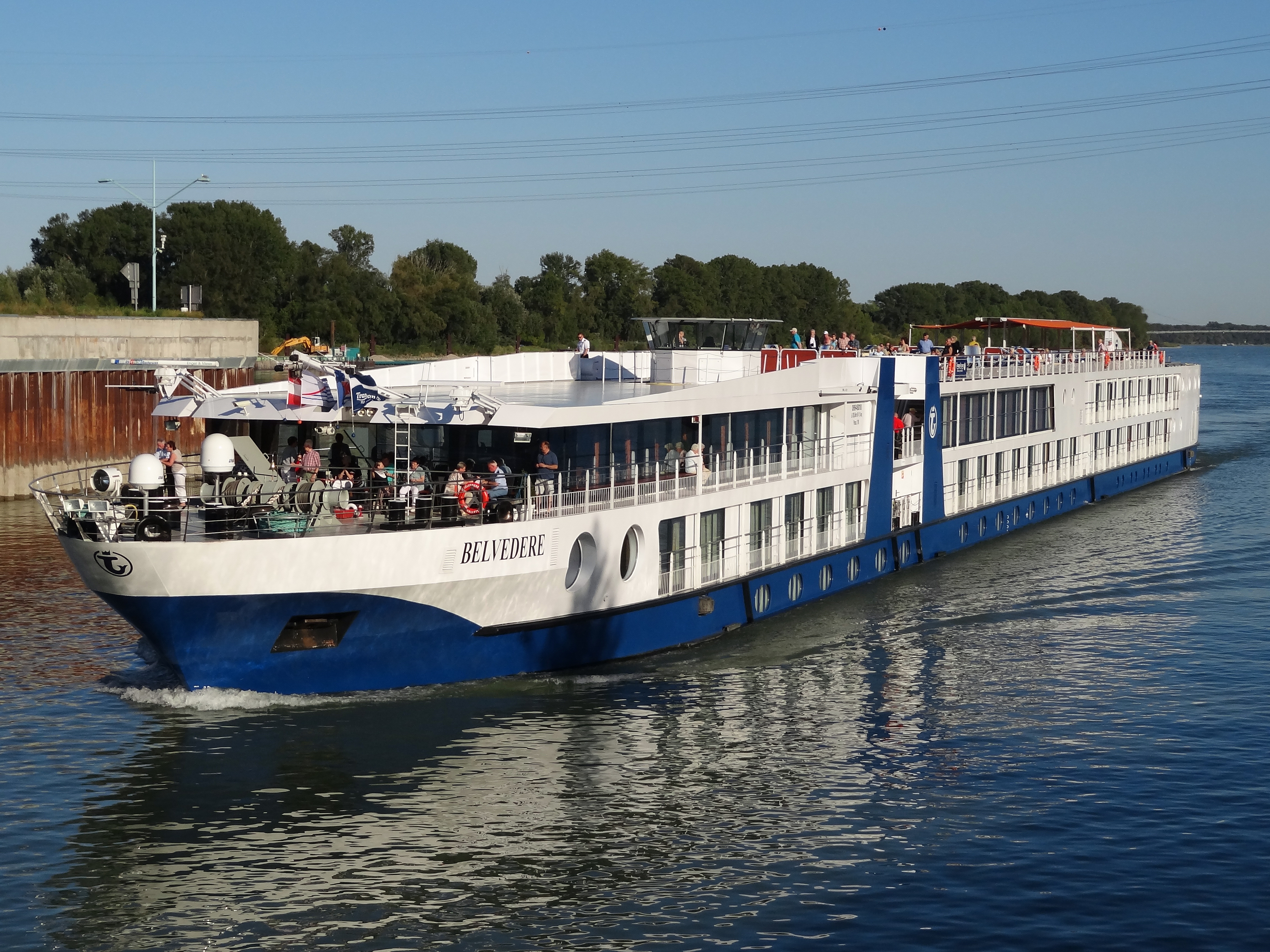 River cruise ship Belvedere in Freudenau, Danube.